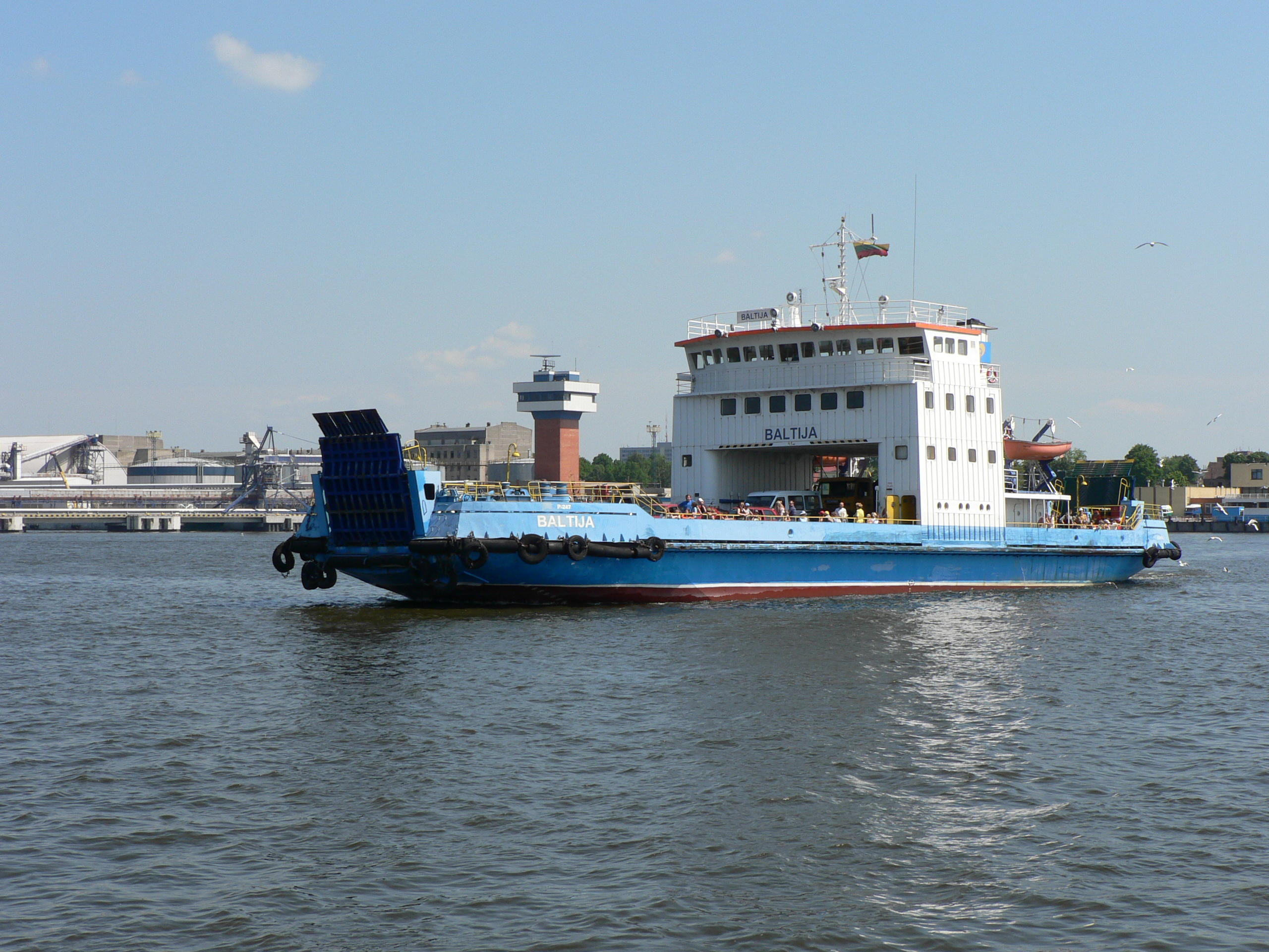 The ferry Baltija between Klaipėda on the mainland of Lithuania and Smiltynė on the Curonian Spit.